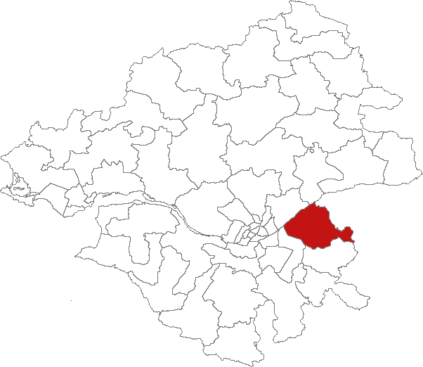 Map of canton of France : Canton du Loroux-Botterau, Loire-Atlantique, France